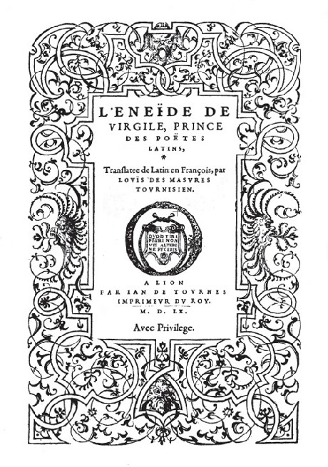 Title page of Des Masures's translation of Eneide (Books 1-4). Lyon : Jean I de Tournes, 1552.